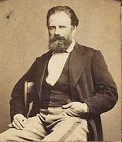 Danish painter Carl Baagøe (cropped)